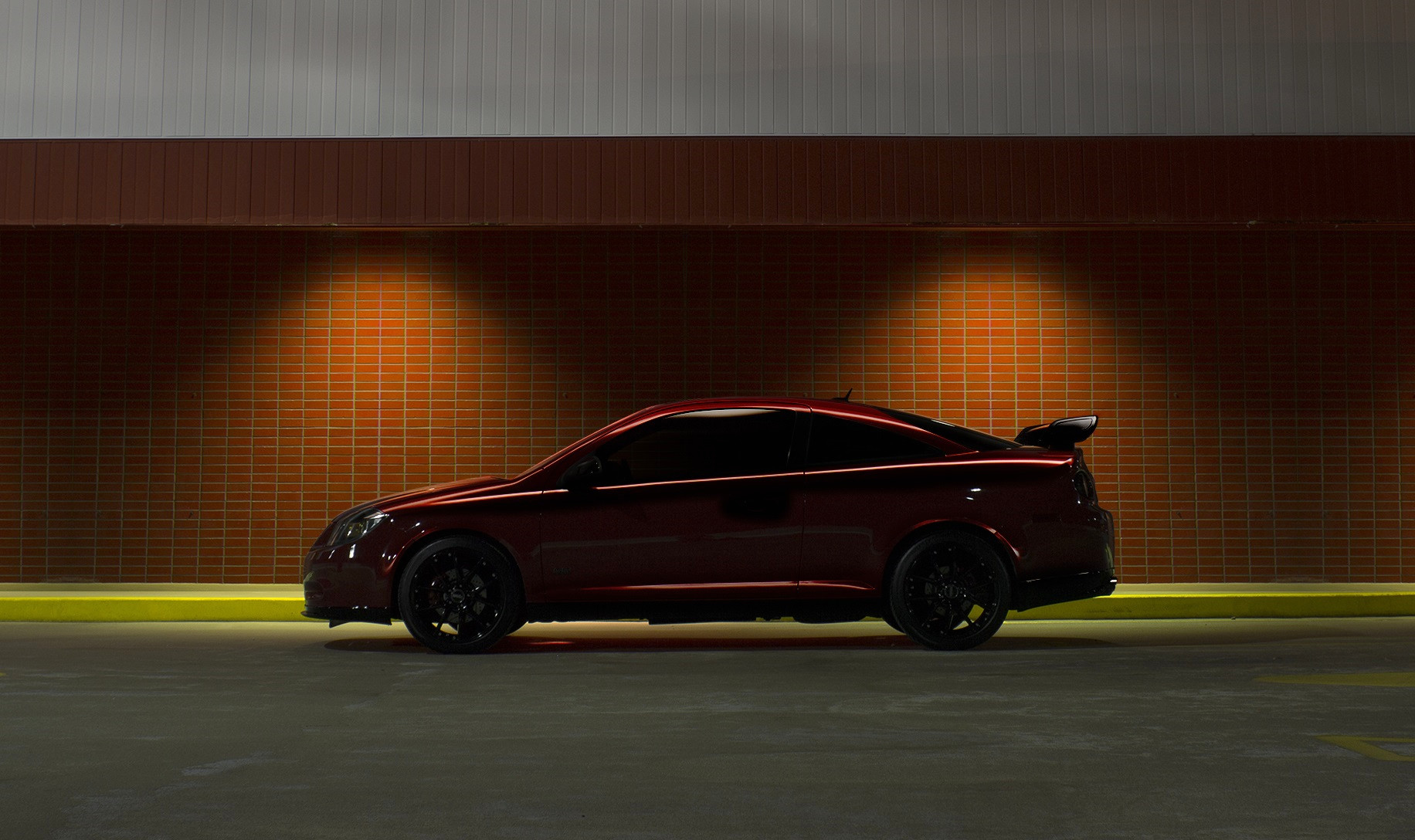 Modified Chevrolet Cobalt SS.